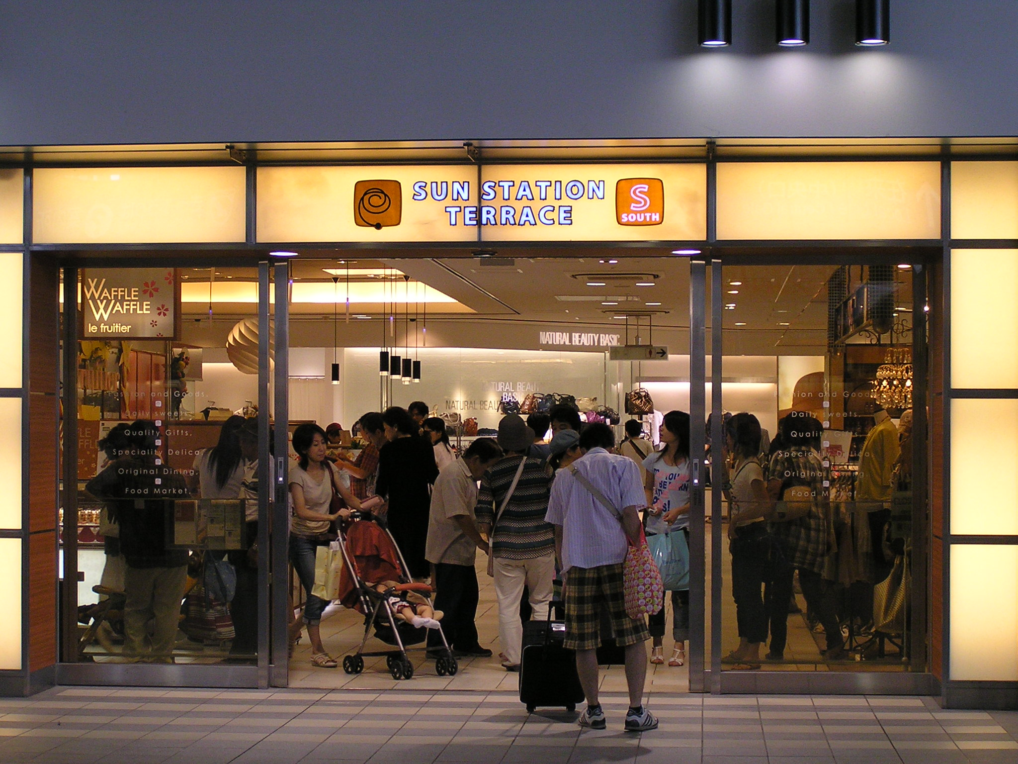 The second floor entrance in the Sun Station Terrace south pavilio